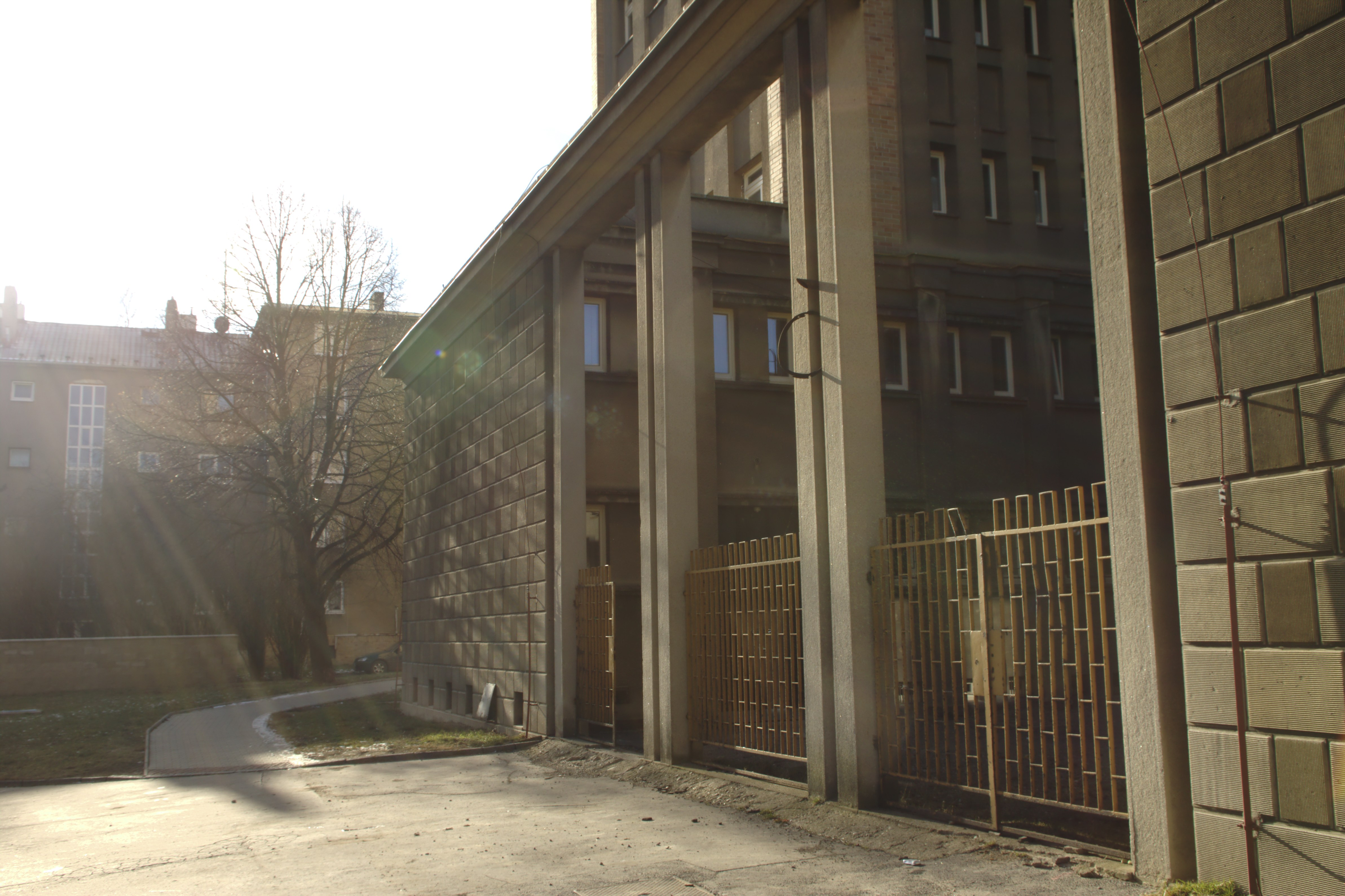 Backyard of one of the tall blocks in Kladno-Rozdělov, Central Bohemian Region, CZ